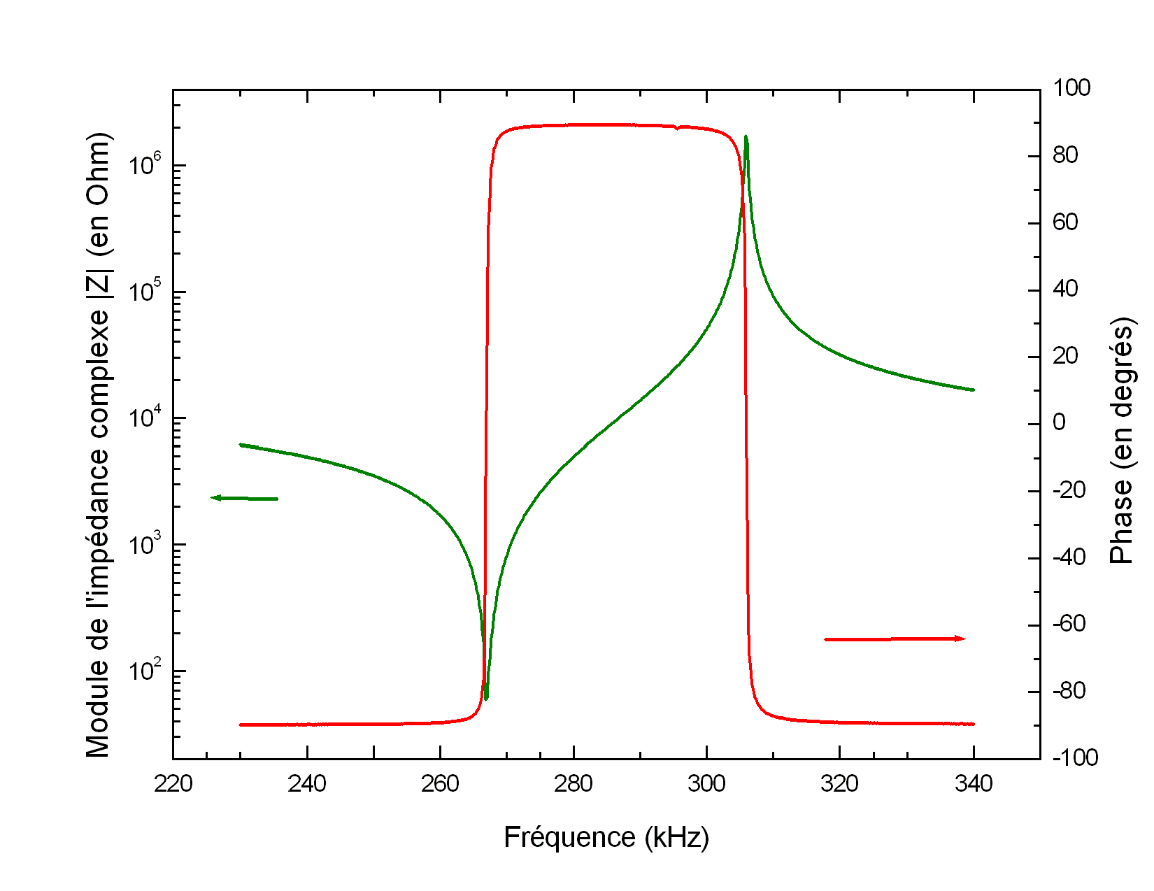 Impedance spectrum of a piezoelectric resonator